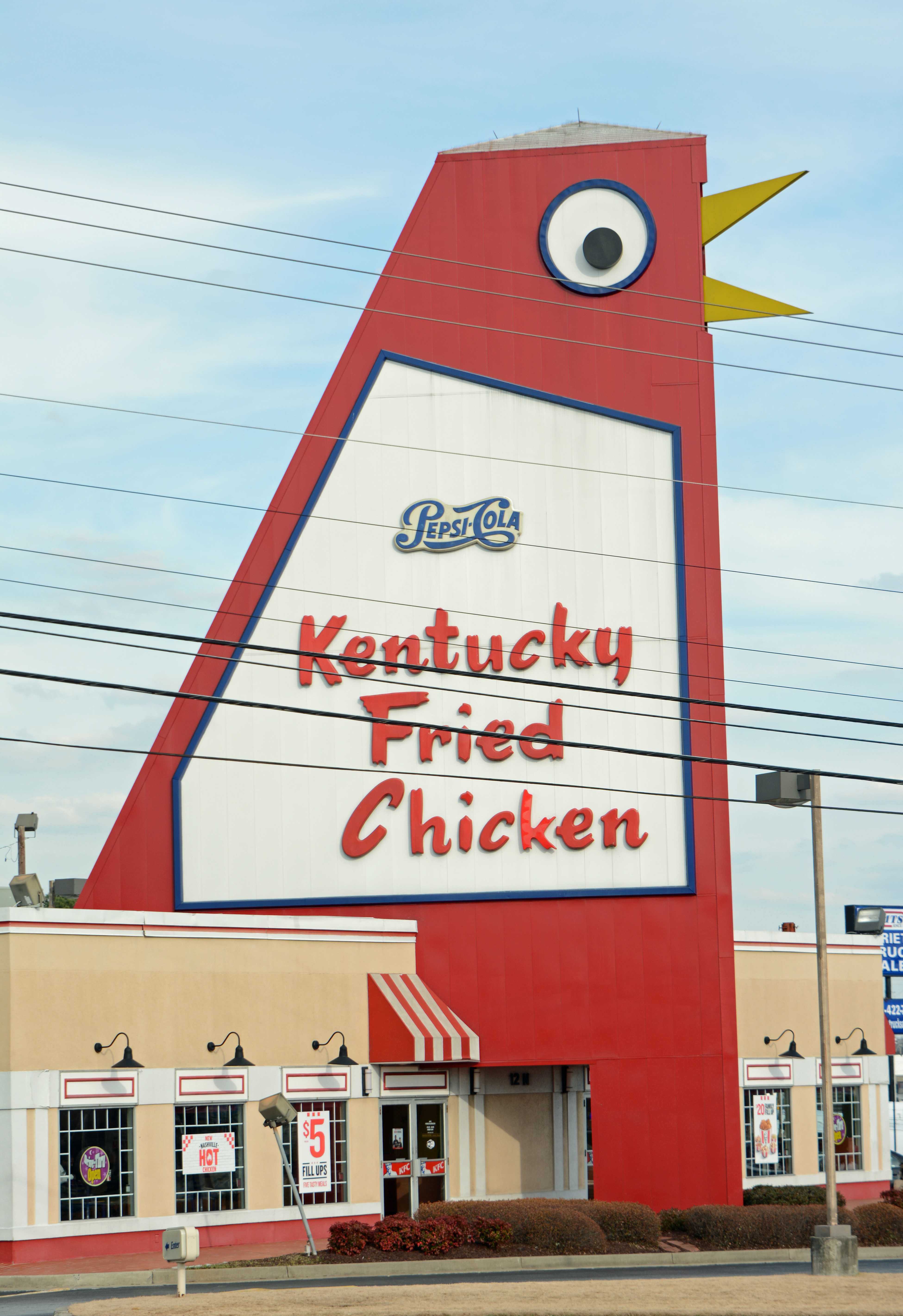 "The Big Chicken" in Marietta, Georgia, US, in 2016